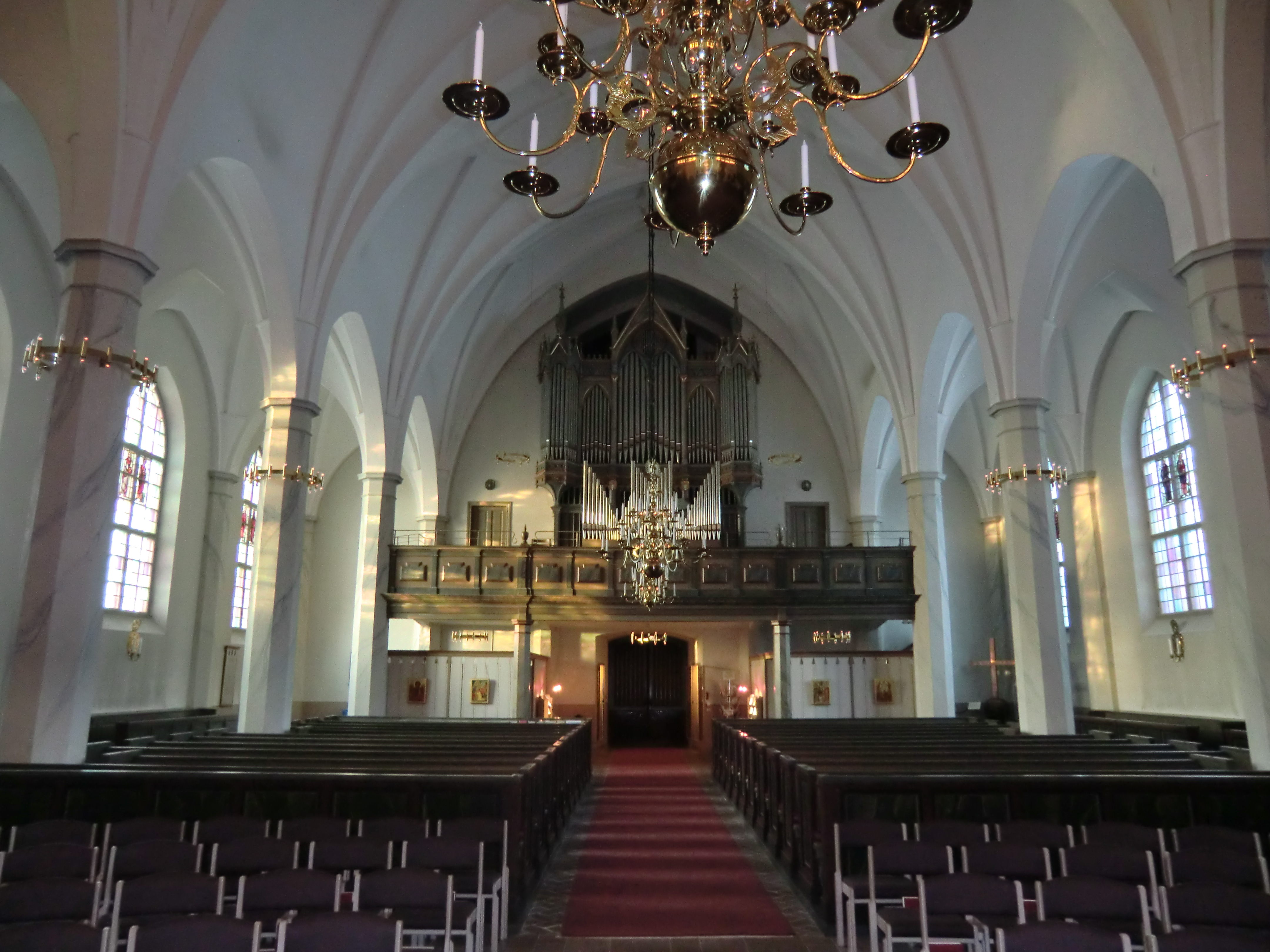 Fryksände church in Torsby, Värmland, Sweden.